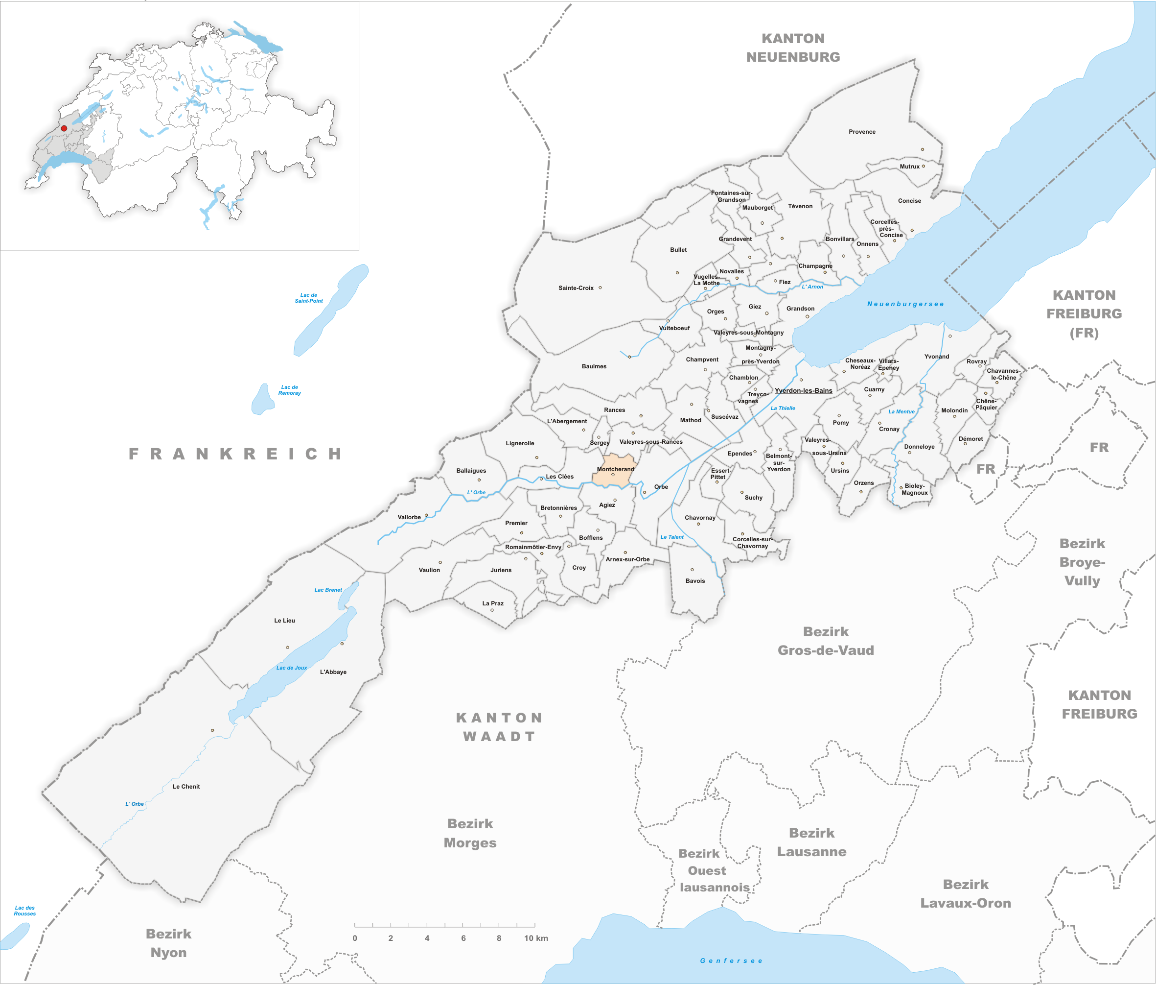 Municipality Montcherand